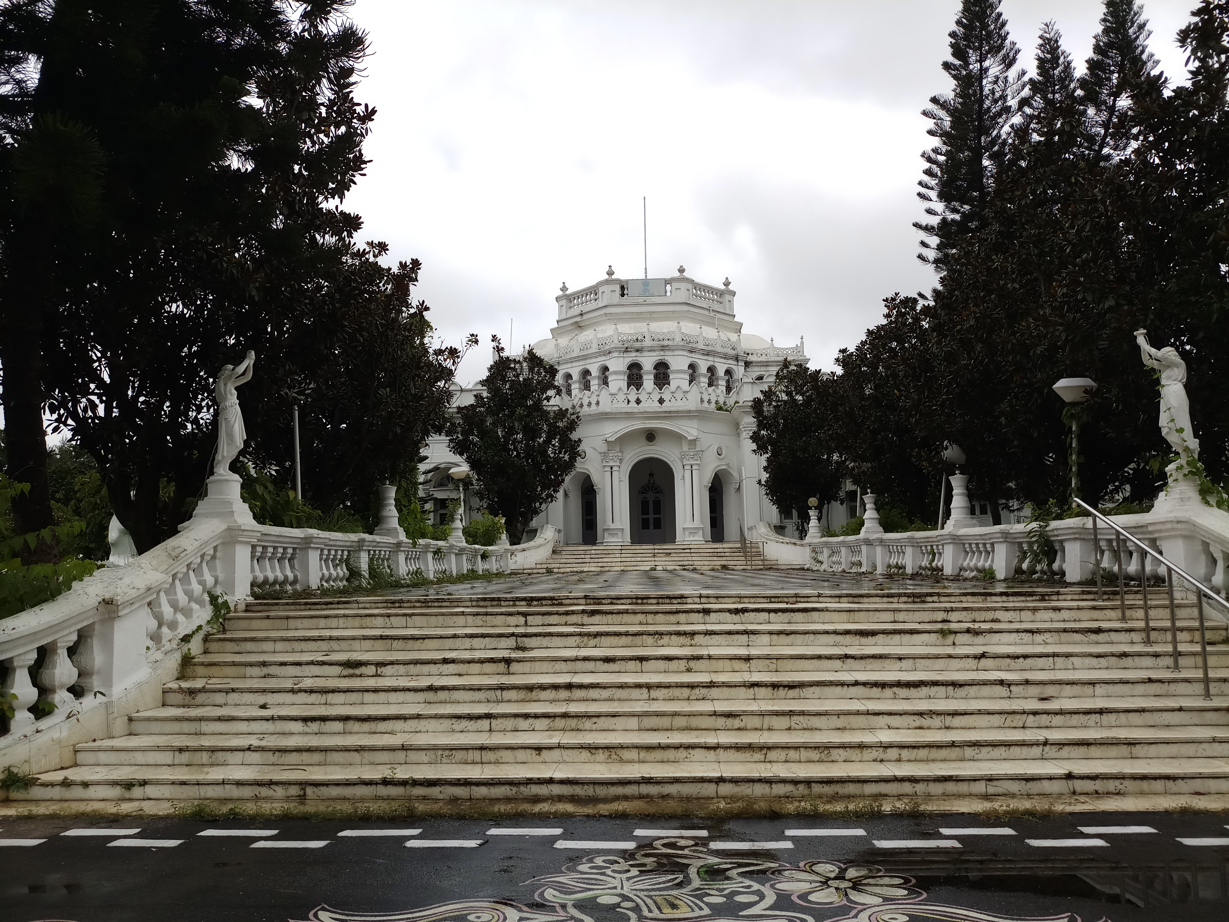 The Main Entrance of Pushpabanta Palace at Agartala